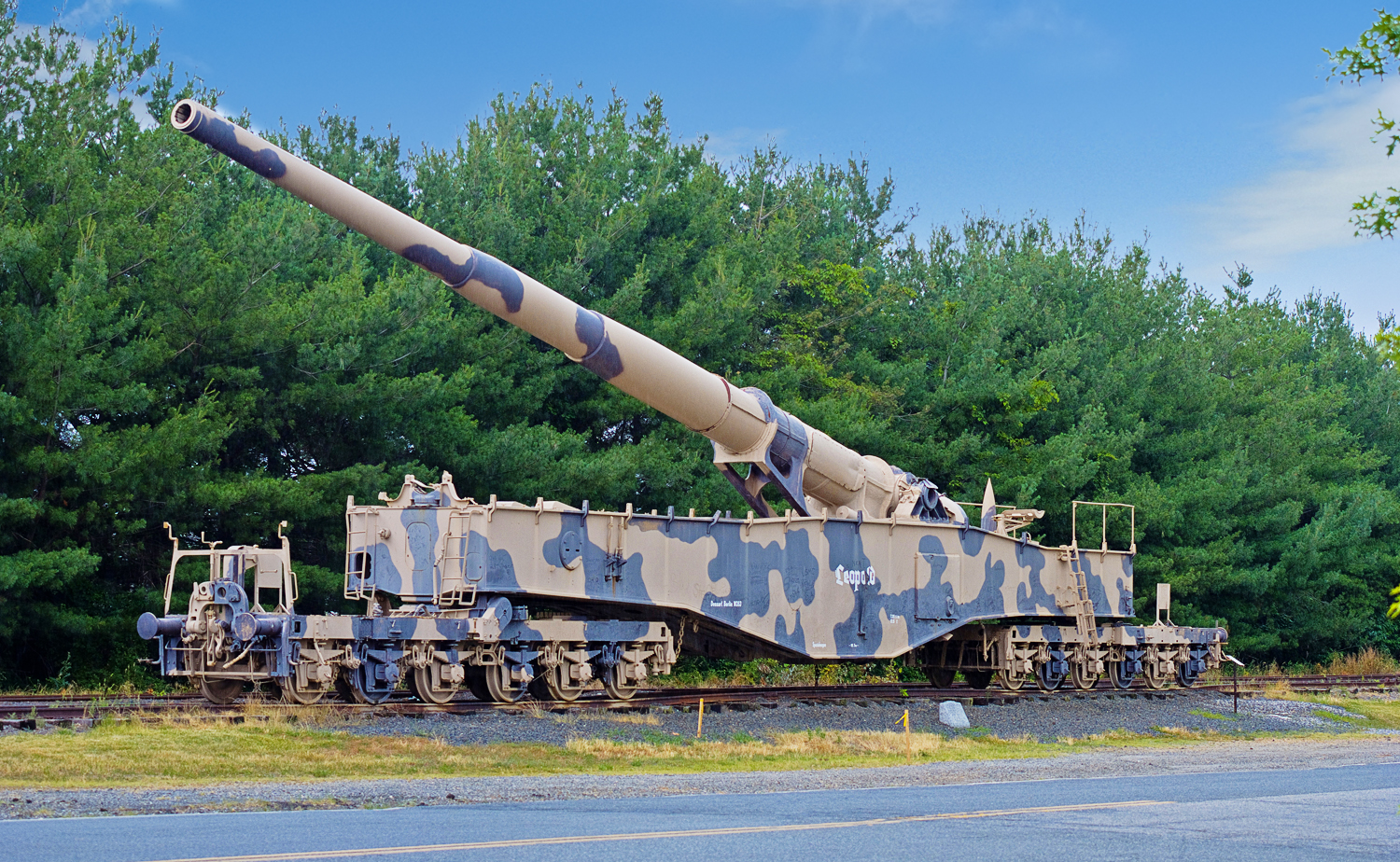 Photograph of railway gun "Anzio Annie" at Aberdeen Proving Grounds